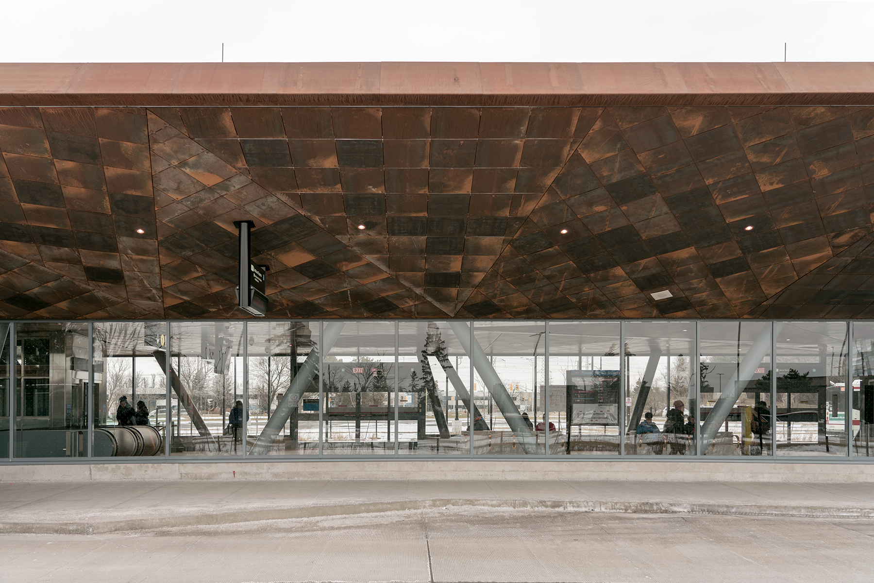 Bus Terminal